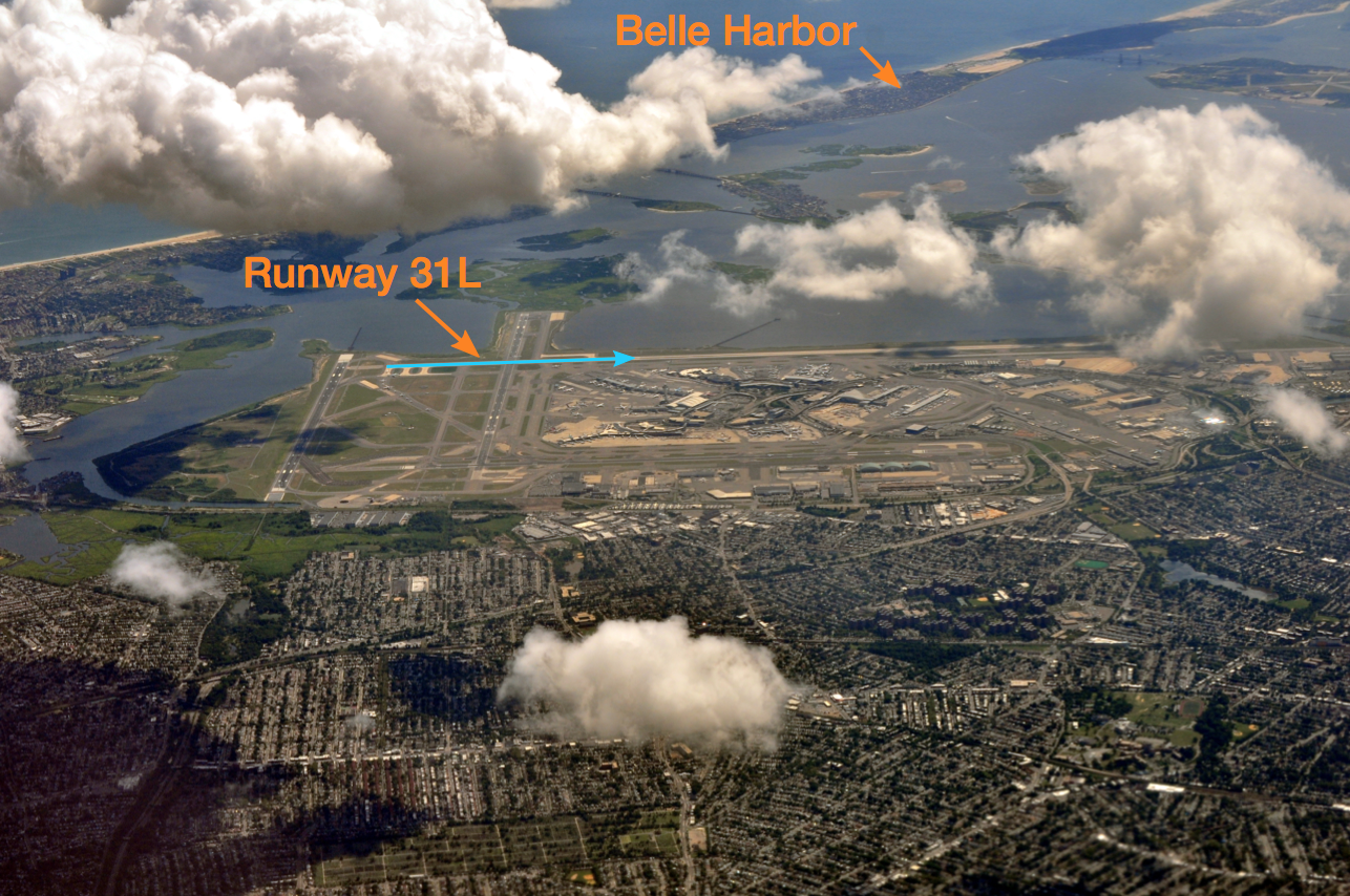 This picture is made with File:Aerial view of JFK Airport from NE 02 - white balanced (9454546375).jpg.